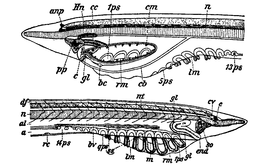 Anterior region of two pelagic larvae of Amphioxus lanceolatus obtained by the tow-net in 8-10 fathoms, showing the asymmetry of the large lateral sinistral mouth with its ciliated margin cm and the dextral series of simple primary gill-slits (1ps-14ps). The larvae swim normally like the adult or suspend themselves by their flagella (not shown in the figures) vertically in mid-water. There is nothing in their mode of life which will afford an explanation of the asymmetry which is a developmental phenomenon.Lettering of upper figure.—anp, Anterior neural pore; bc, rudiment of buccal skeleton; c, cilia; cb, ciliated band; cc, ciliated groove; cm, cilia at margin of mouth; gl, external opening of club-shaped gland; Hn, Hatschek's nephridium; lm, left metapleur; n, notochord; pp, praeoral pit; ps, primary gill-slits, 1, 5, and 13; rm, right metapleur showing through.Lettering of lower figure.—a, Atrium; al, alimentary canal; bv, blood-vessel; cv, cerebral vesicle; df, dorsal section of myocoel (=fin spaces); e, “eyespot”; end, endostyle; gl, club-shaped gland; lm, edge of left metapleur; m, lower edge of mouth; n, notochord; nt, pigmented nerve tube; ps, primary gill-slits, 1, 9, and 14; rc, renal cells on atrial floor; rm, edge of right metapleur; so, sense organ opening into praeoral pit; ss, thickenings, the rudiments of the row of secondary gill-slits.Illustration from 1911 Encyclopædia Britannica, article Amphioxus.